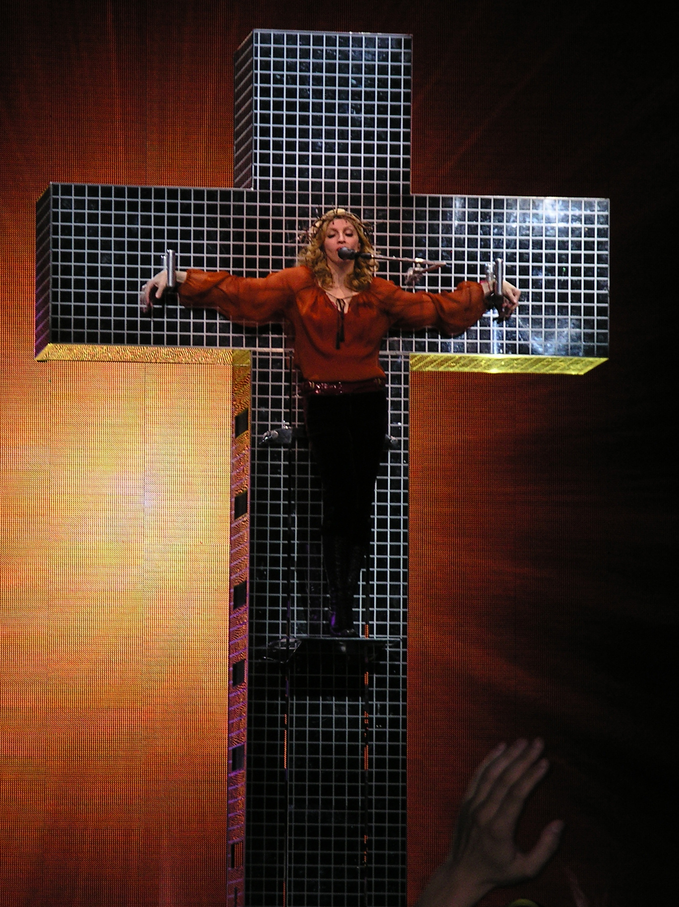 Madonna during her concert in Paris, France, as part of her Confessions Tour on August 31, 2006.